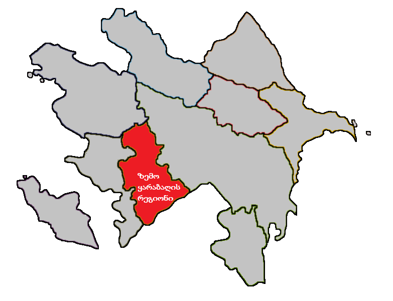 Yukhari Garabakh region.